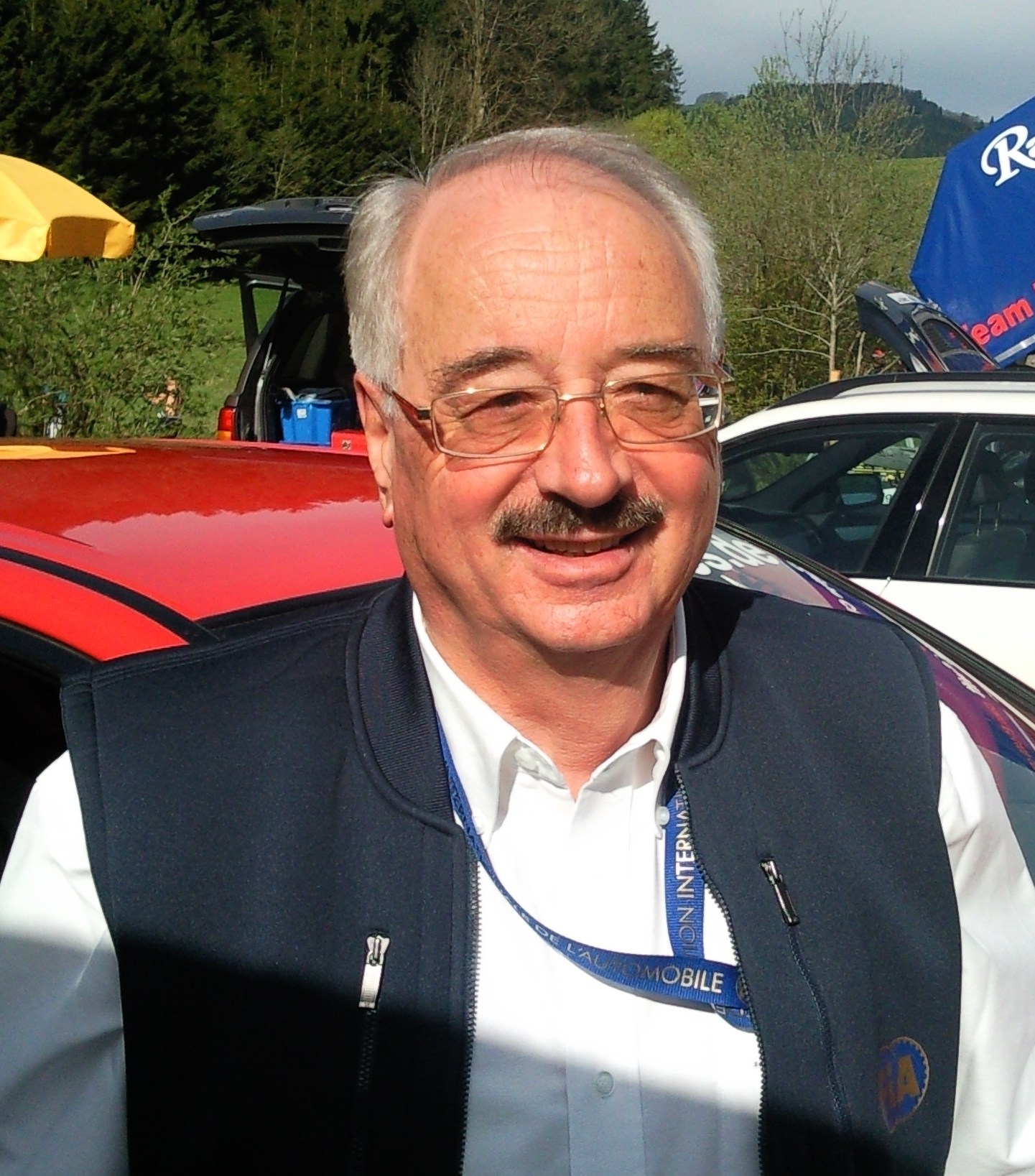 Paul Gutjahr at Großer Bergpreis von Österreich 2013